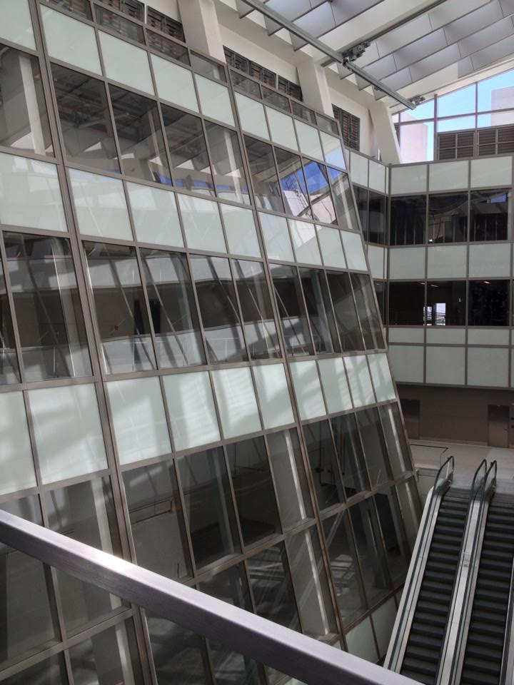 A light well inside the new Tom Bradley West international terminal. The light well utilizes the Southern California sunshine and spreads it across several stories and levels, thereby reducing overall energy demands.